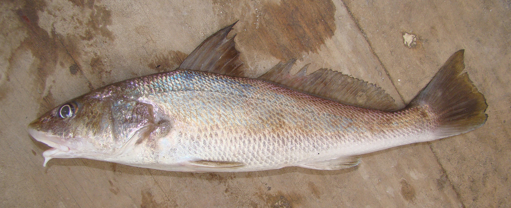 Menticirrhus americanus from the Patos Lagoon Estuary, Rio Grande do Sul, Brazil, photographed on December 2008.